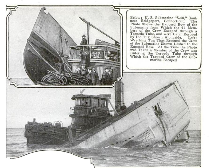 Photographs of the submarine USS S-48 after she sunk. The bow is above water and all crew members escaped through the torpedo tubes.